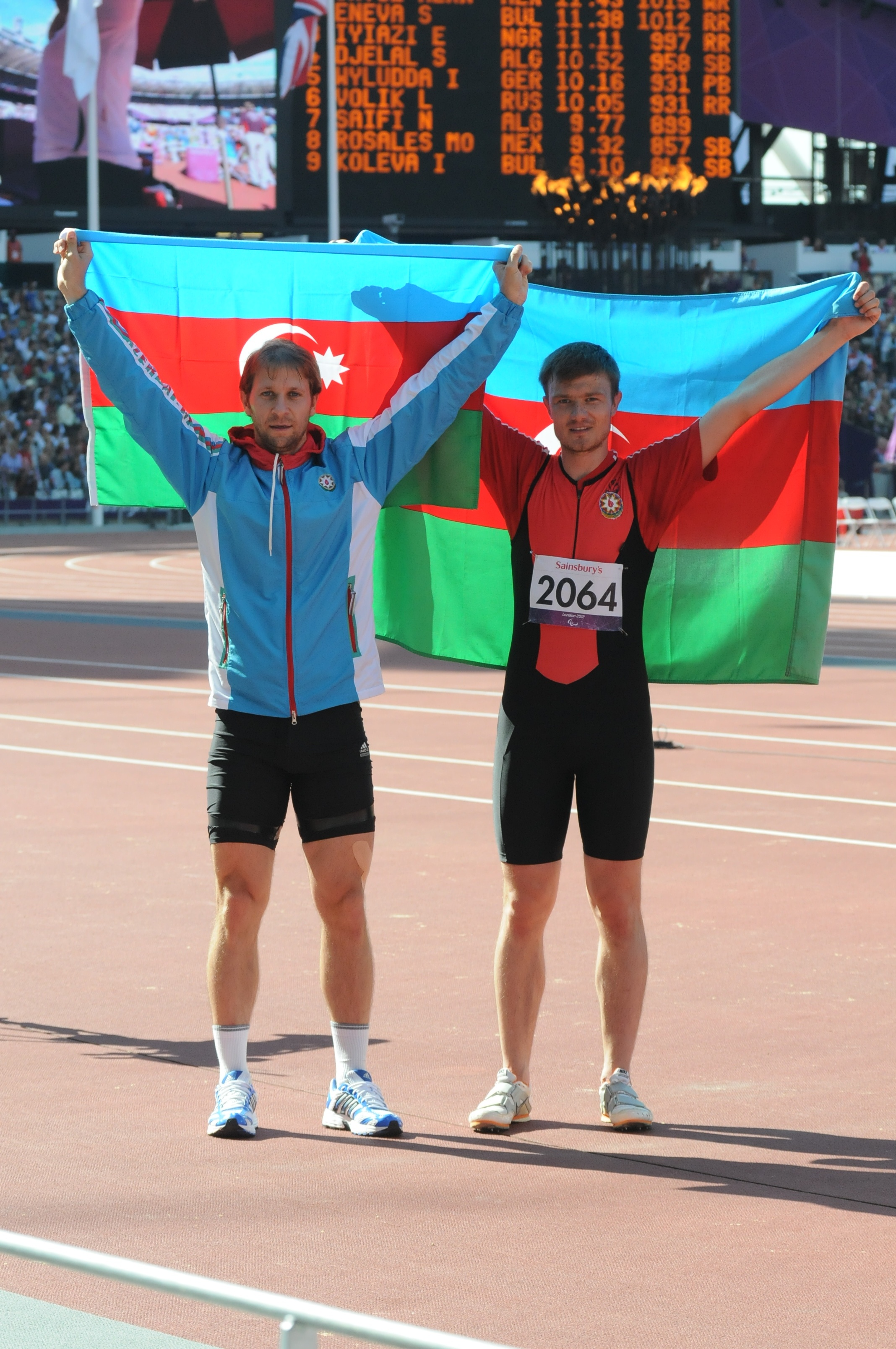 Oleg Panyutin and Vladimir Zayets at the 2012 Summer Paralympics